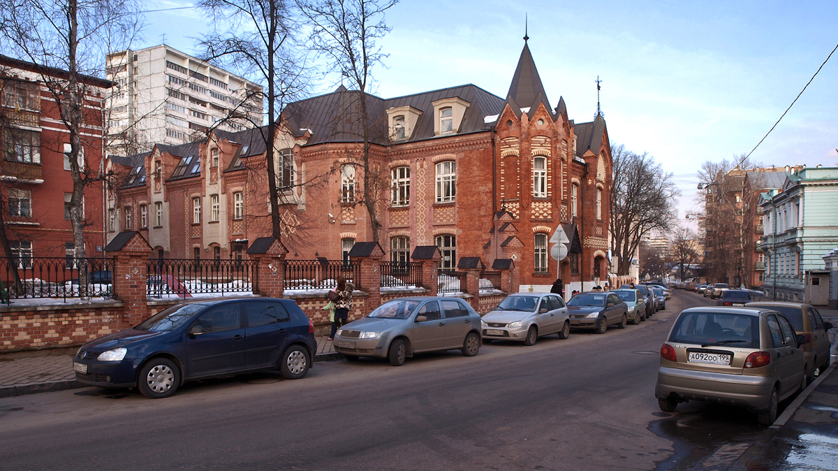 Gorokhovsky Lane, Moscow - Andriyaka School of Watercolours